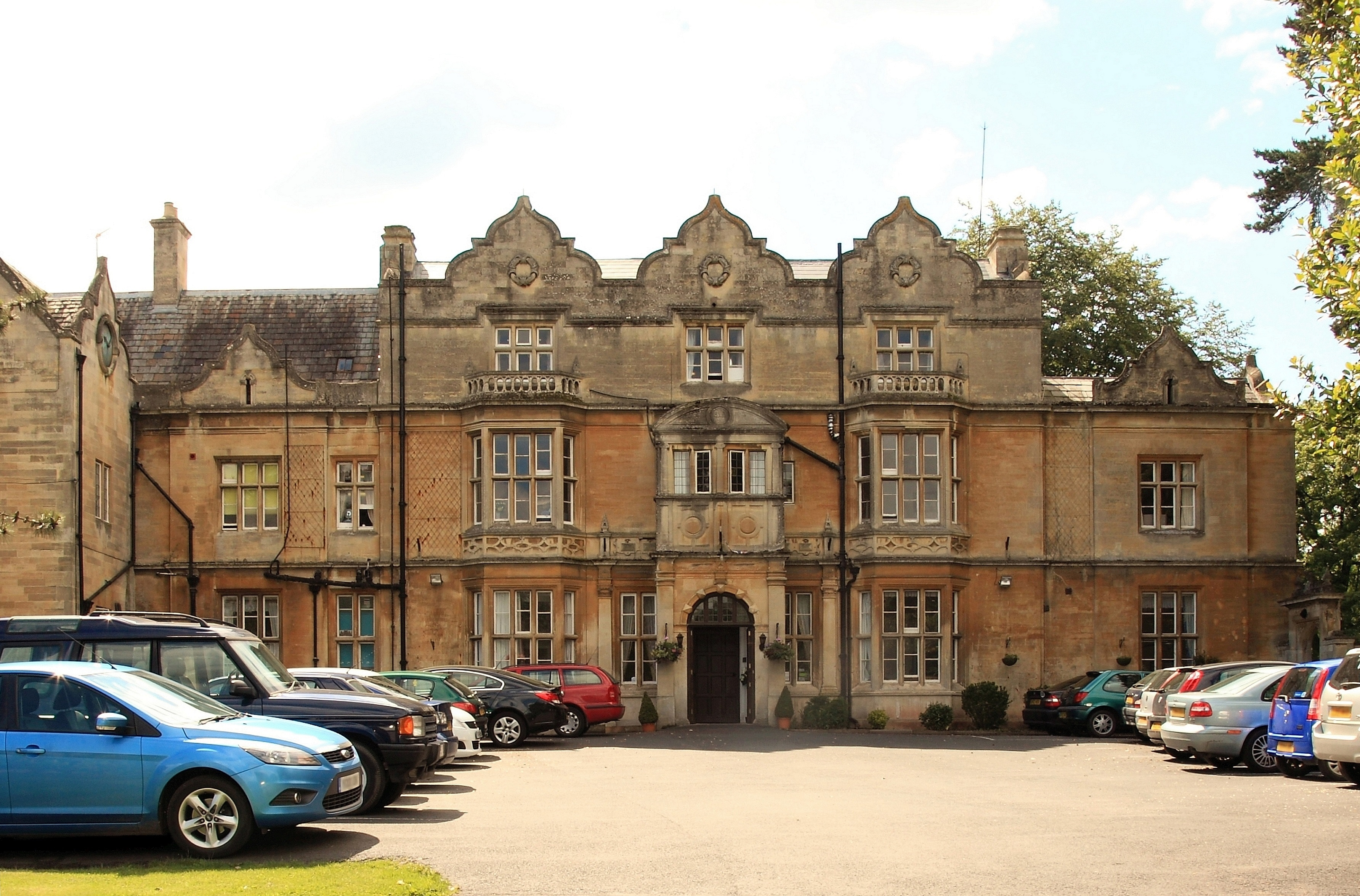 Astley Hall, Worcestershire, home of Stanley Baldwin, 1st Earl Baldwin of Bewdley, KG PC FRS (1867–1947), three times Prime Minister of the United Kingdom